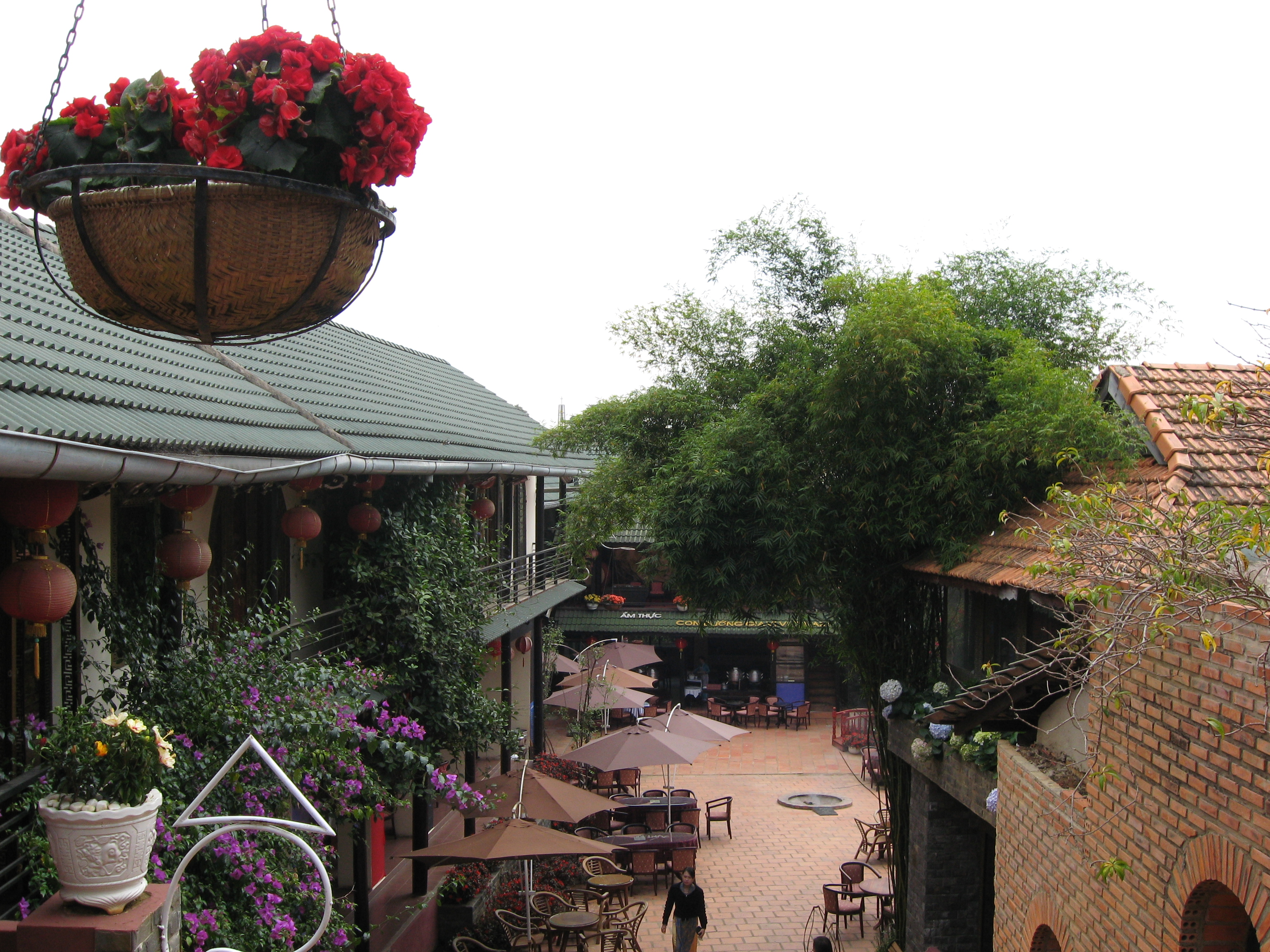 XQ Dalat Historical Village